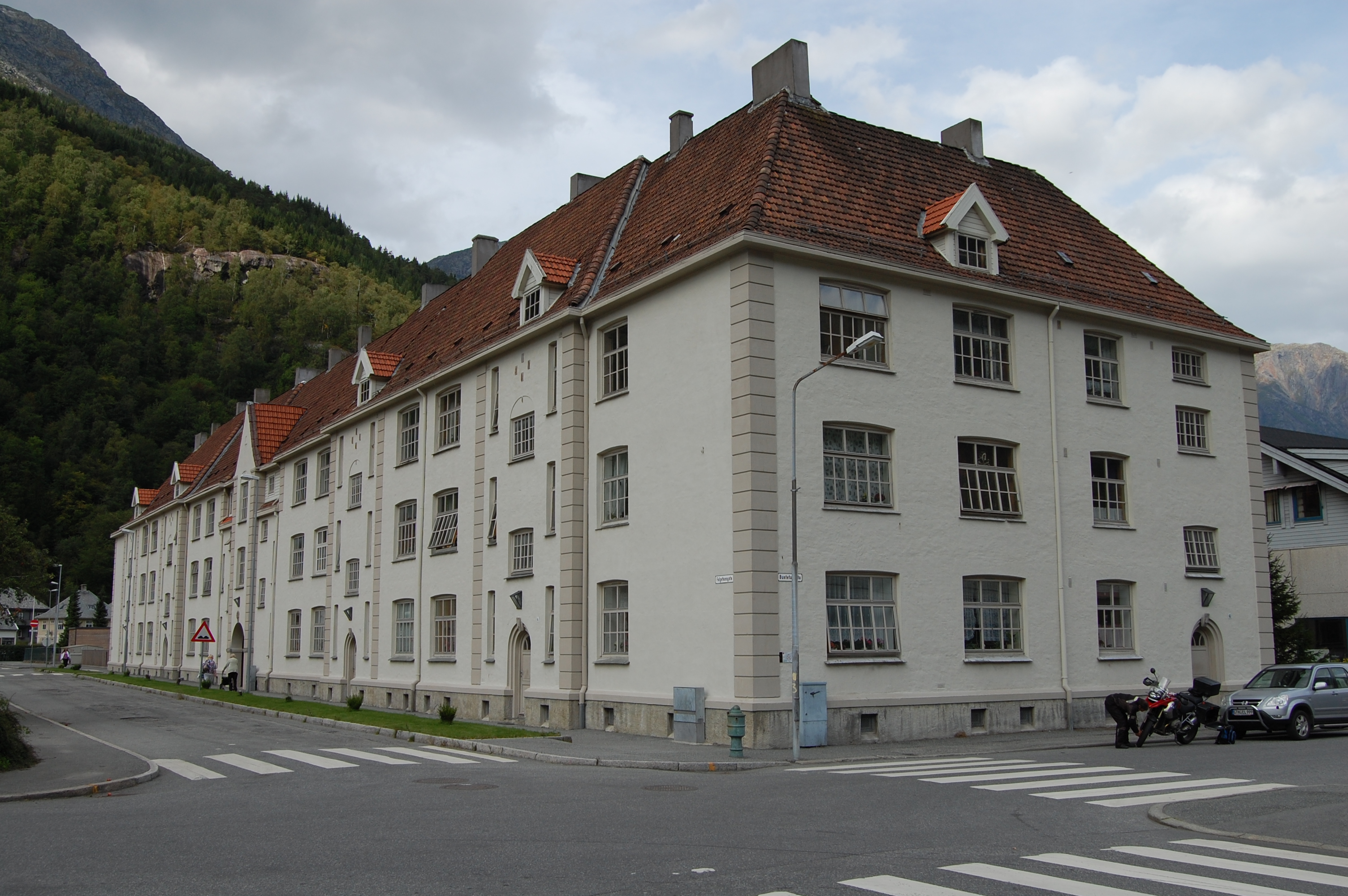 Murboligen (1913-15) by arc. Egill Reimers, workers housing build by The North Western Cyanamide Company, Odda, Norway.